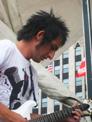 Mateo Camargo